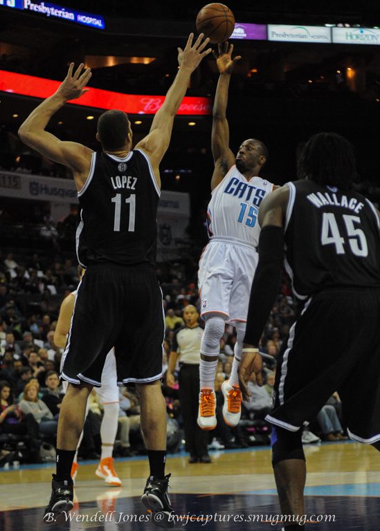 Charlotte Bobcats' Kemba Walker prepares to shoot over Brooklyn Nets' Brook Lopez as Gerald Wallace looks on.